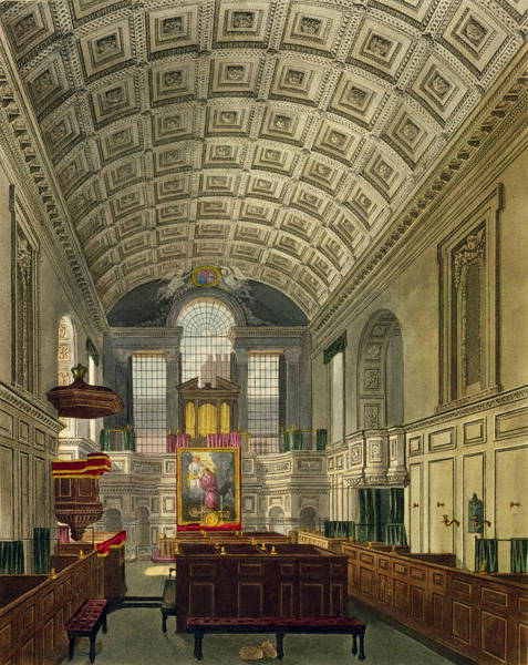 The German Chapel, St. James's Palace, 1816, from 'The History of the Royal Residences' by William Henry Pyne, engraved by Daniel Havell from a painting by Charles Wild